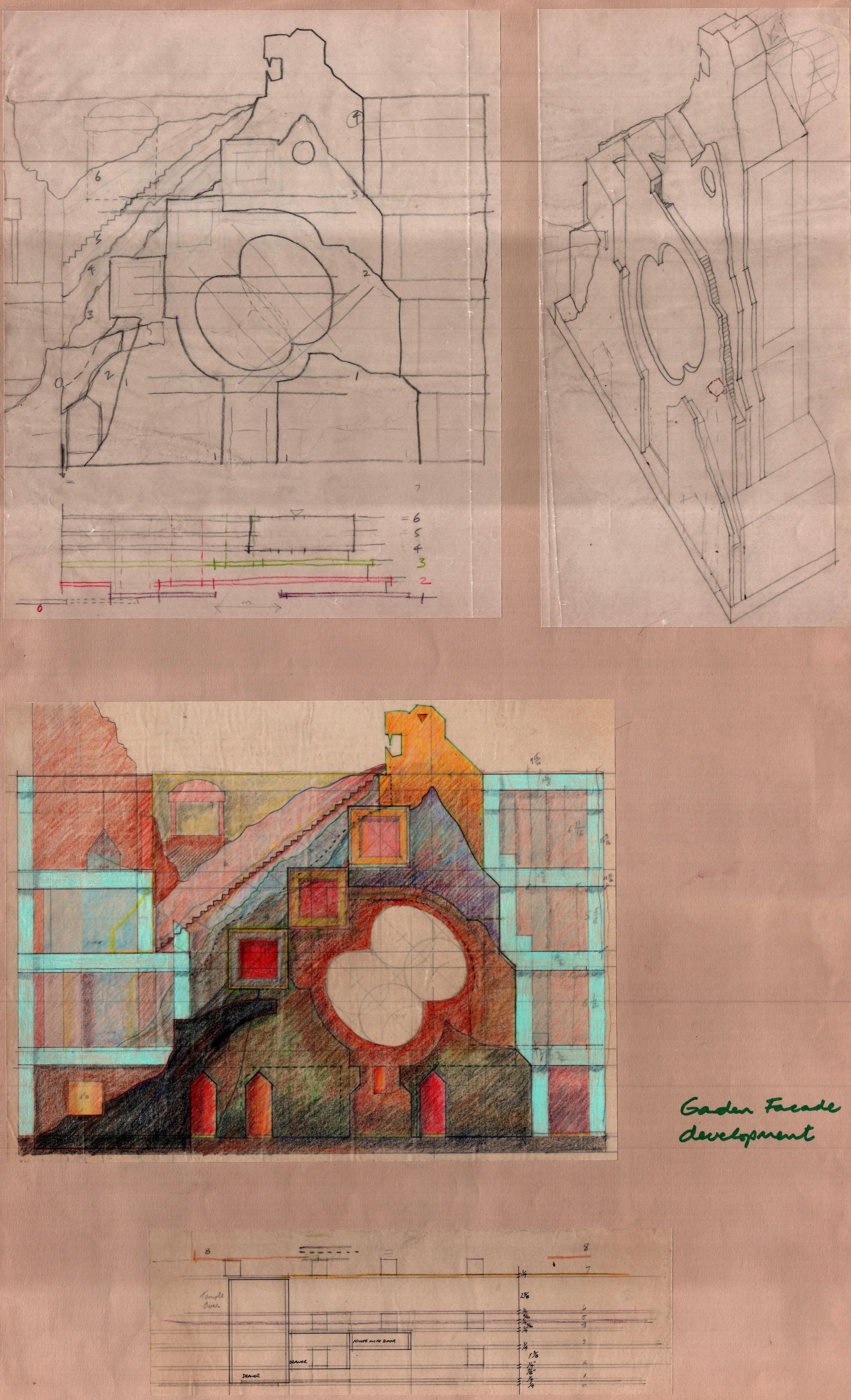 Featured images for Douglas Jarvie Clelland Wikipedia article